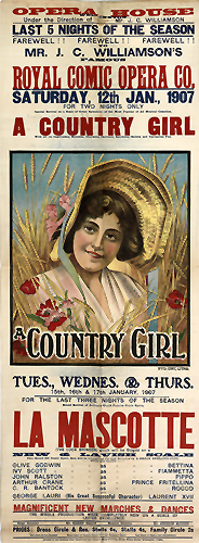 Print for a 1907 J.C. Williamson production of A Country Girl.